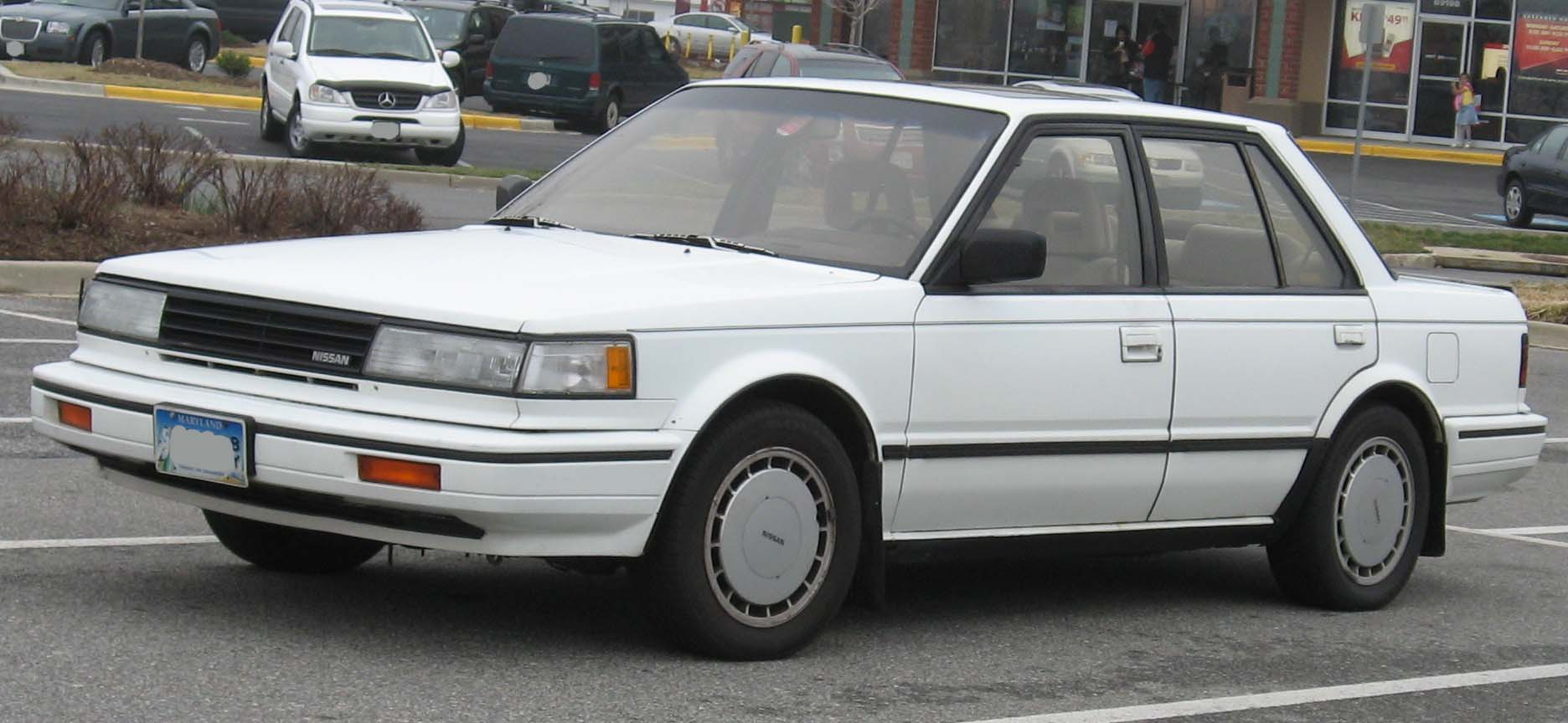 1987-1988 Nissan Maxima photographed in USA.